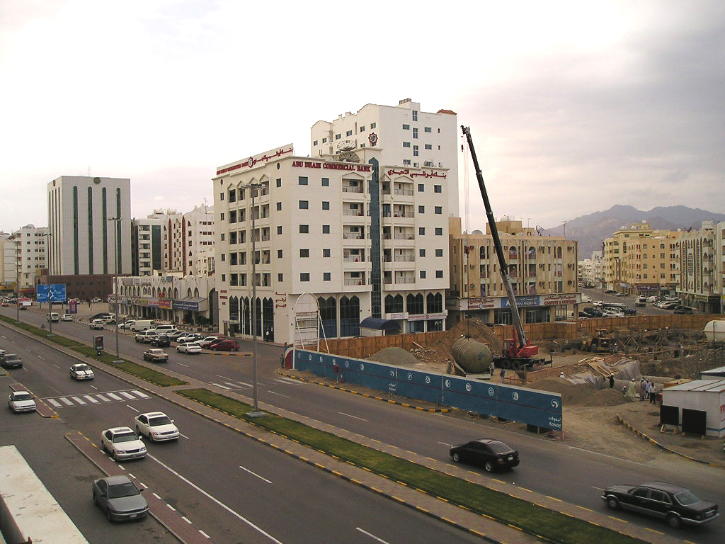 Hamad bin Abdullah street, Fujairah, U.A.E.